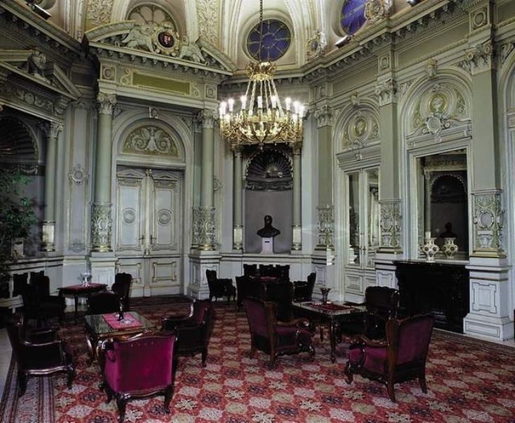 Budapest Western Railway Station, King Hall